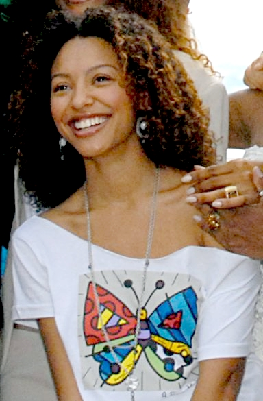 Sharon Menezes, Brazilian actress